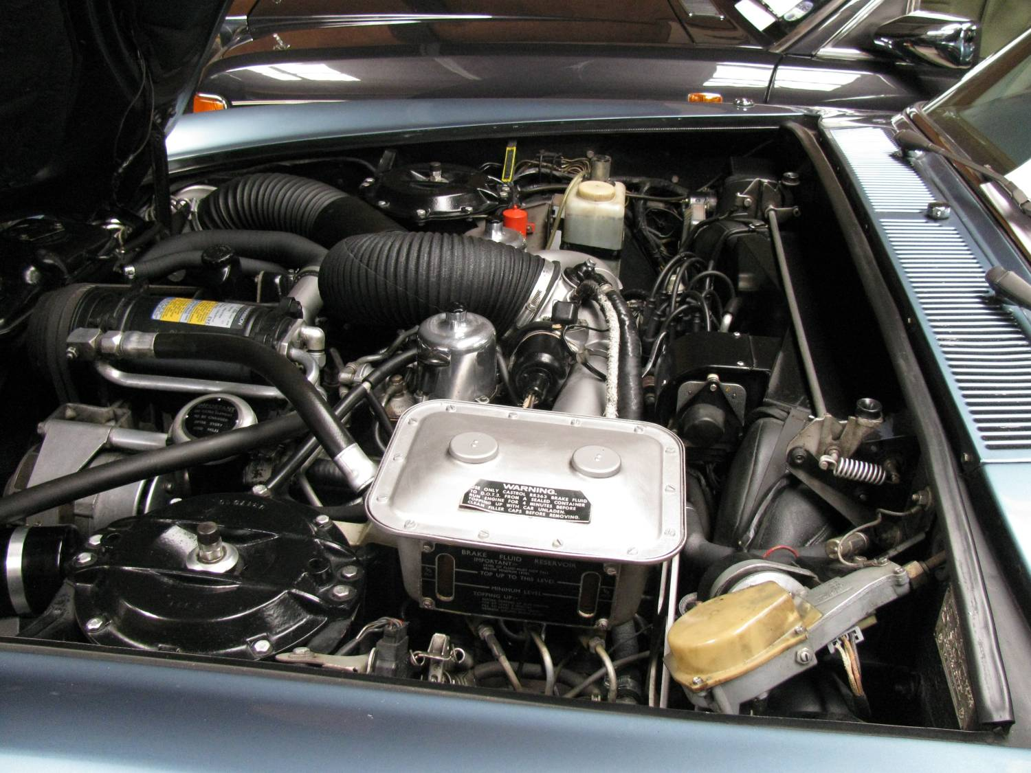 The Rolls-Royce Silver Shadow engine from 1972 in perfect conditions.